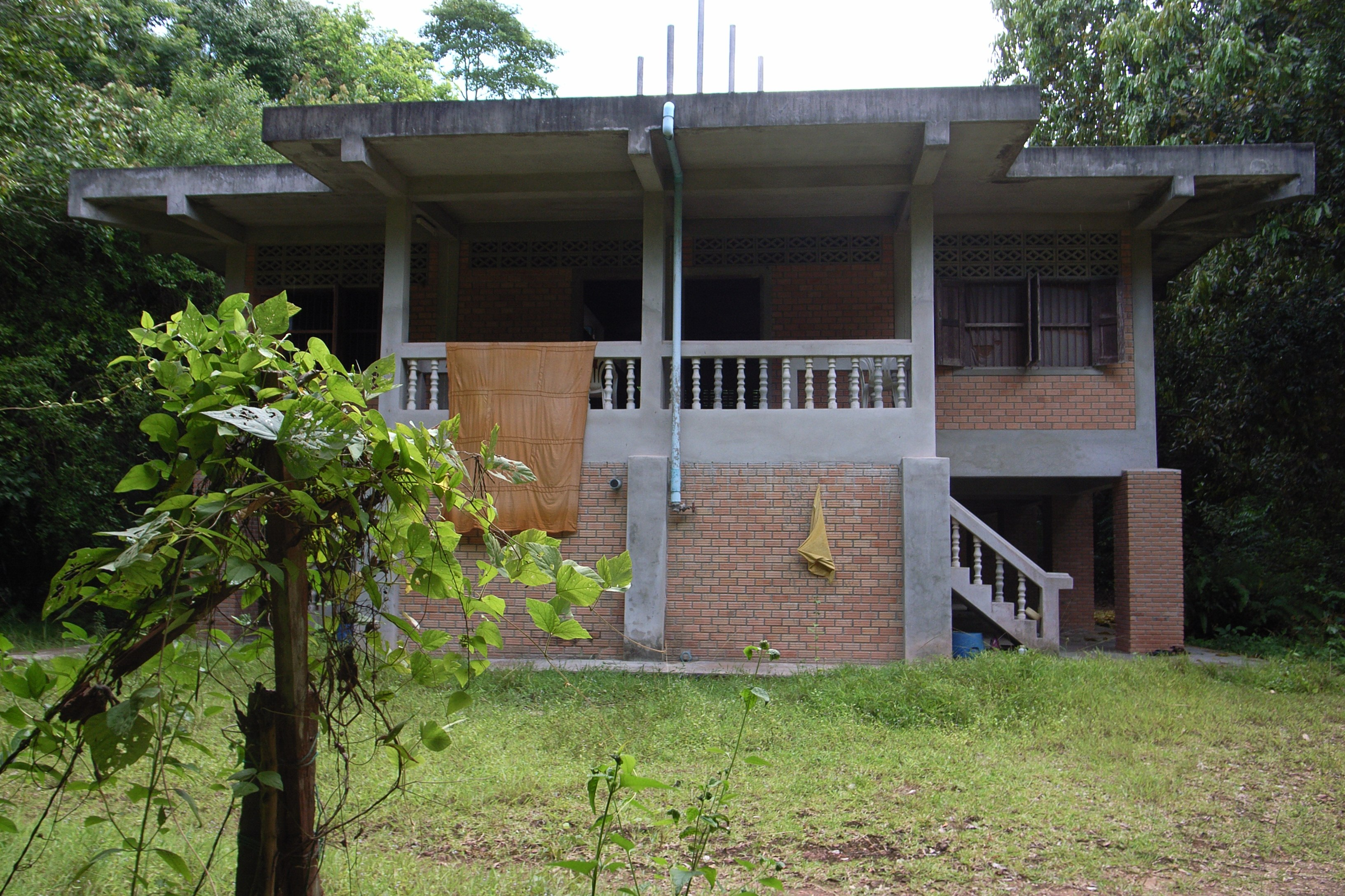 Quarters for laymen at Suan Mokkh International Dharma Hermitage